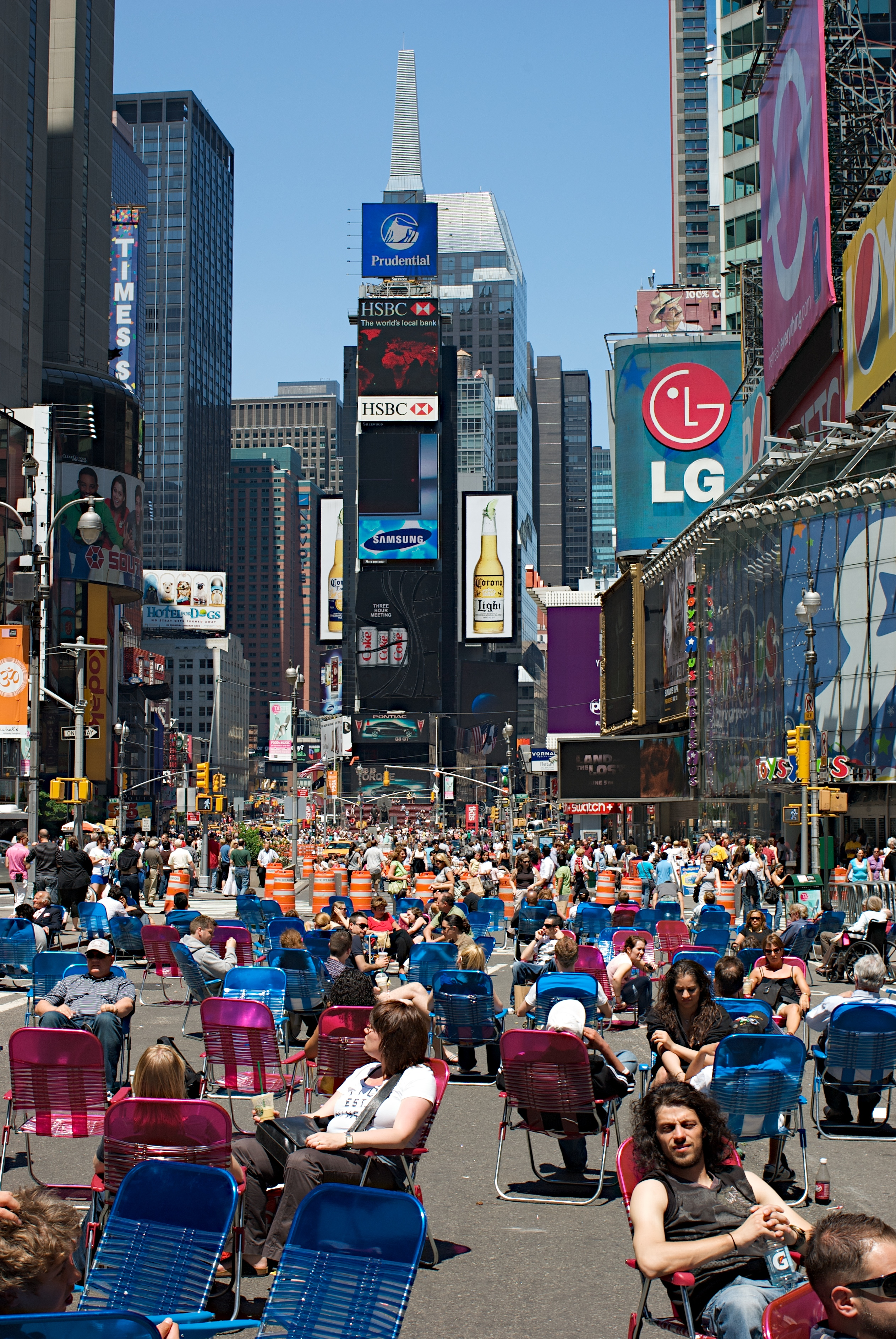 People spending time on Times Square in a sunny afternoon.